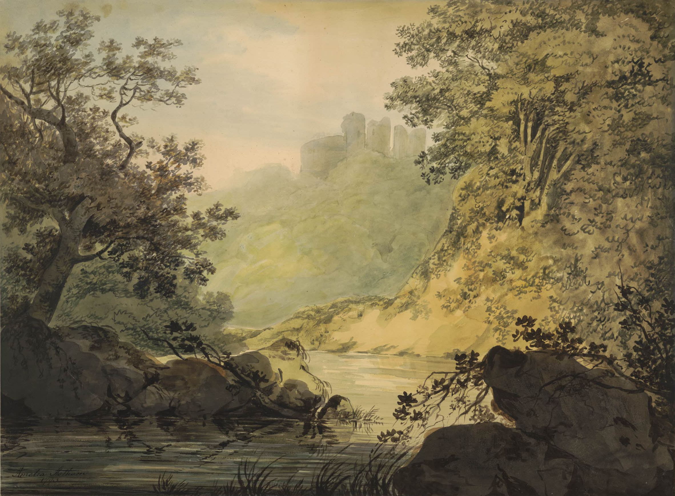 "Riverside landscape with a castle in the distance. painted in 1793, when Turner and Girtin were only eighteen. The breadth and manner of this drawing are therefore remarkable, especially as coming from a lady of that time. The scenic pomp of the design points to the influence of Francis Nicholson." as introduced on page 88 in Women painters of the world, from the time of Caterina Vigri, 1413-1463, to Rosa Bonheur and the present day, by Walter Shaw Sparrow, The Art and Life Library, Hodder & Stoughton, 27 Paternoster Row, London